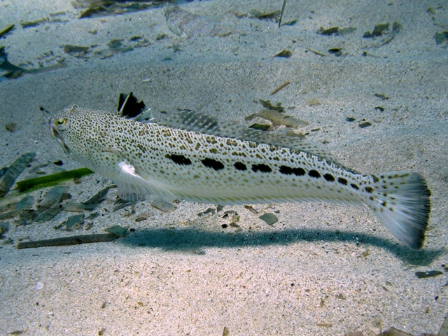 Trachinus araneus photographed in Sardinian waters (Italy). Photo by Roberto Pillon.